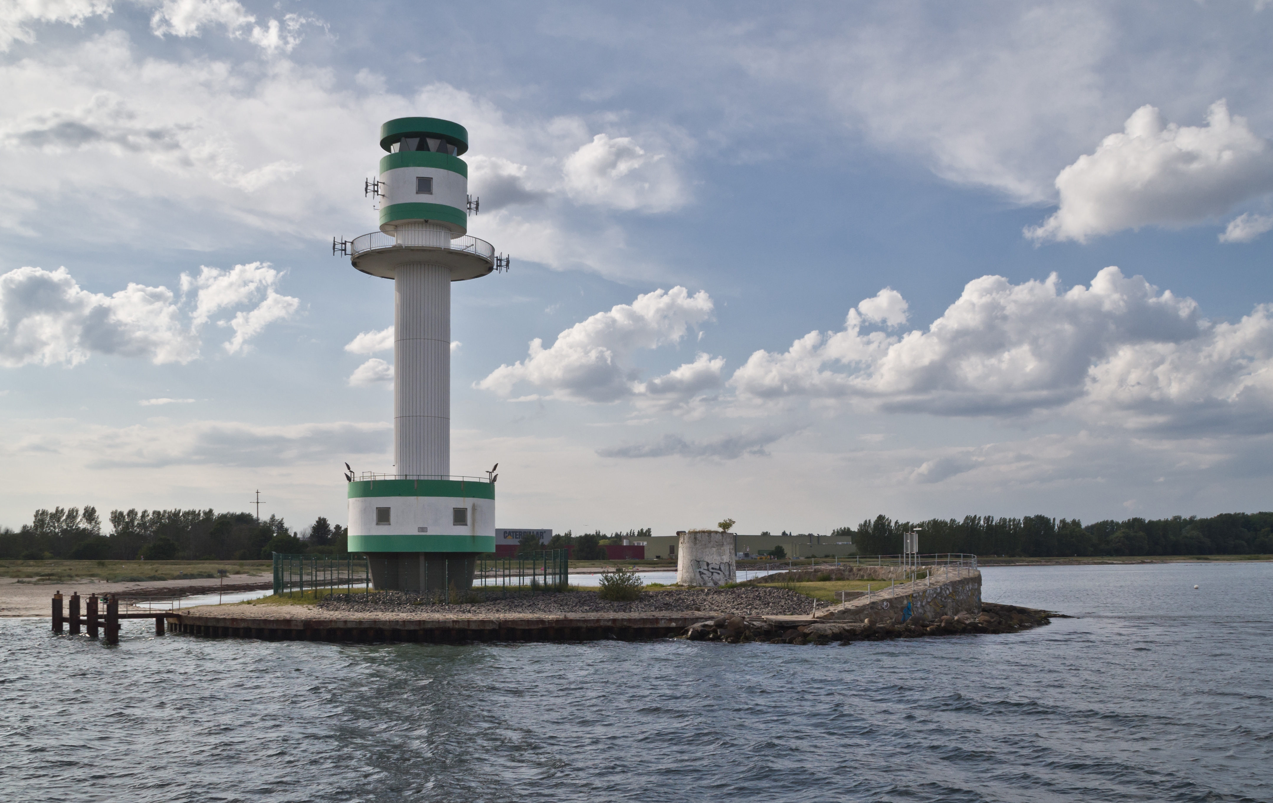 Lighthouse in the Bay of Kiel